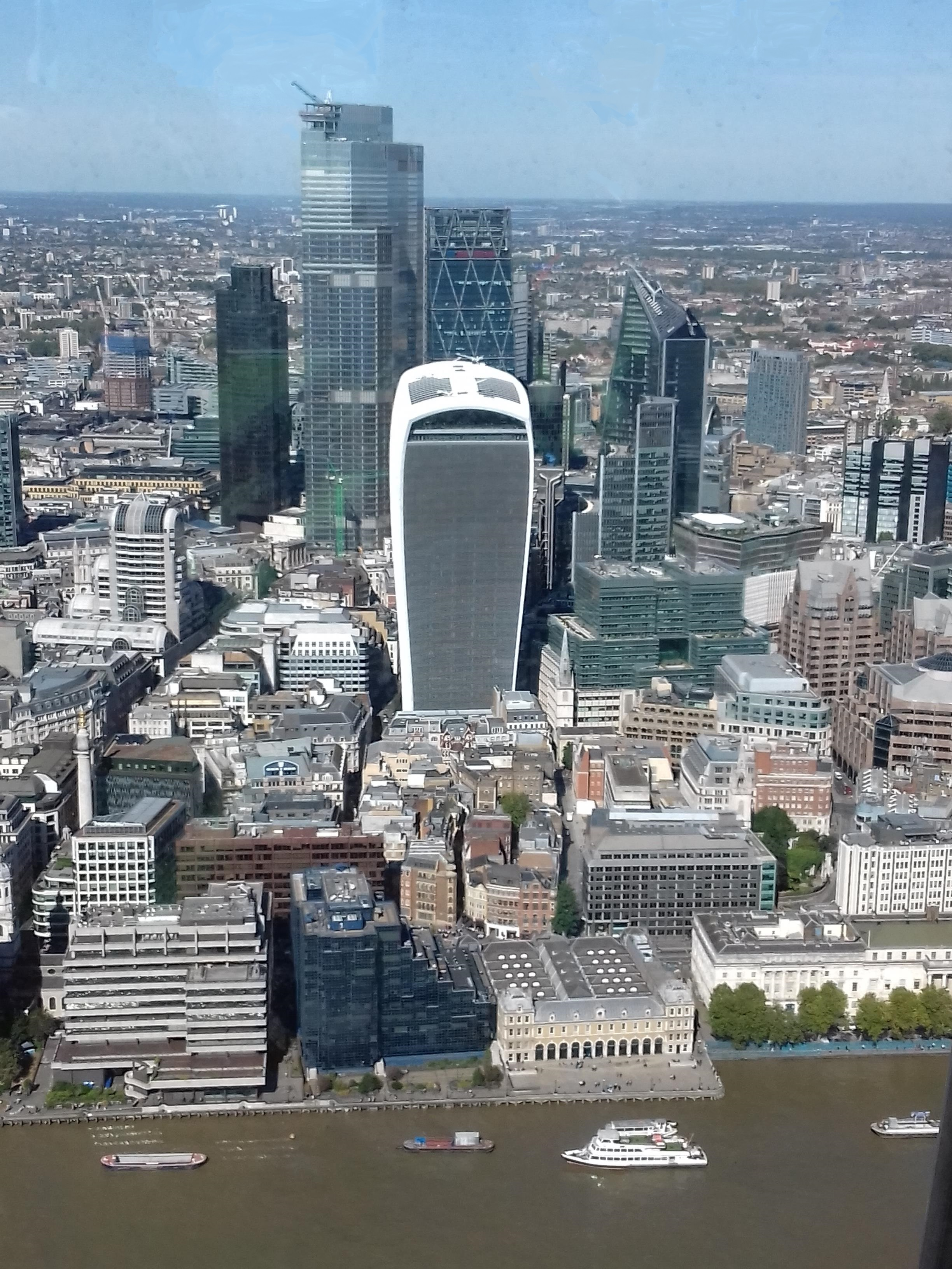 City of London skyscrapers, with 20 Fenchurch Street skyscraoer at center